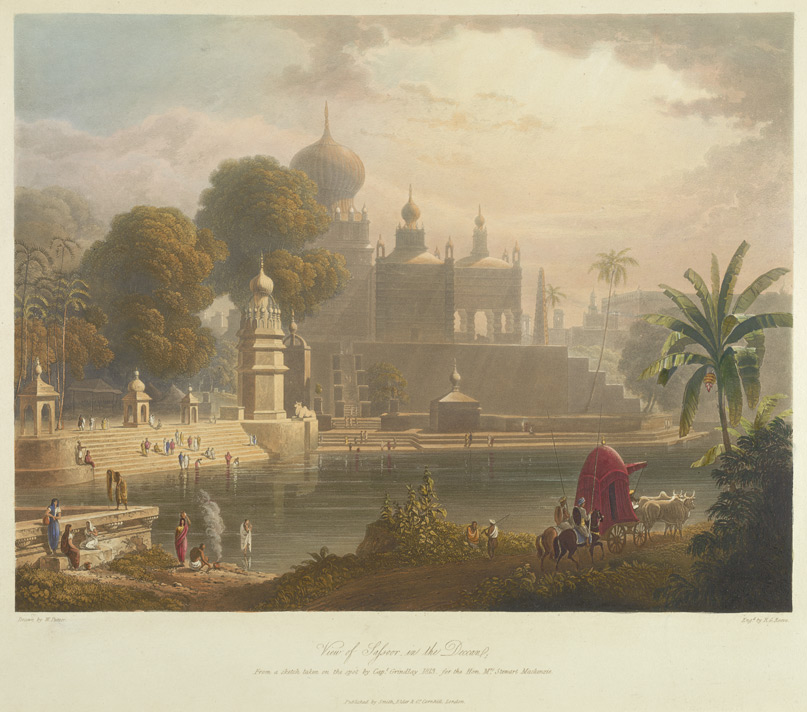 This is an image from Robert Melville Grindlay's 'Scenery, Costumes and Architecture chiefly on the Western Side of India'. He served with the Bombay Native Infantry from 1804 to 1820 and during this period made a large collection of sketches and drawings.